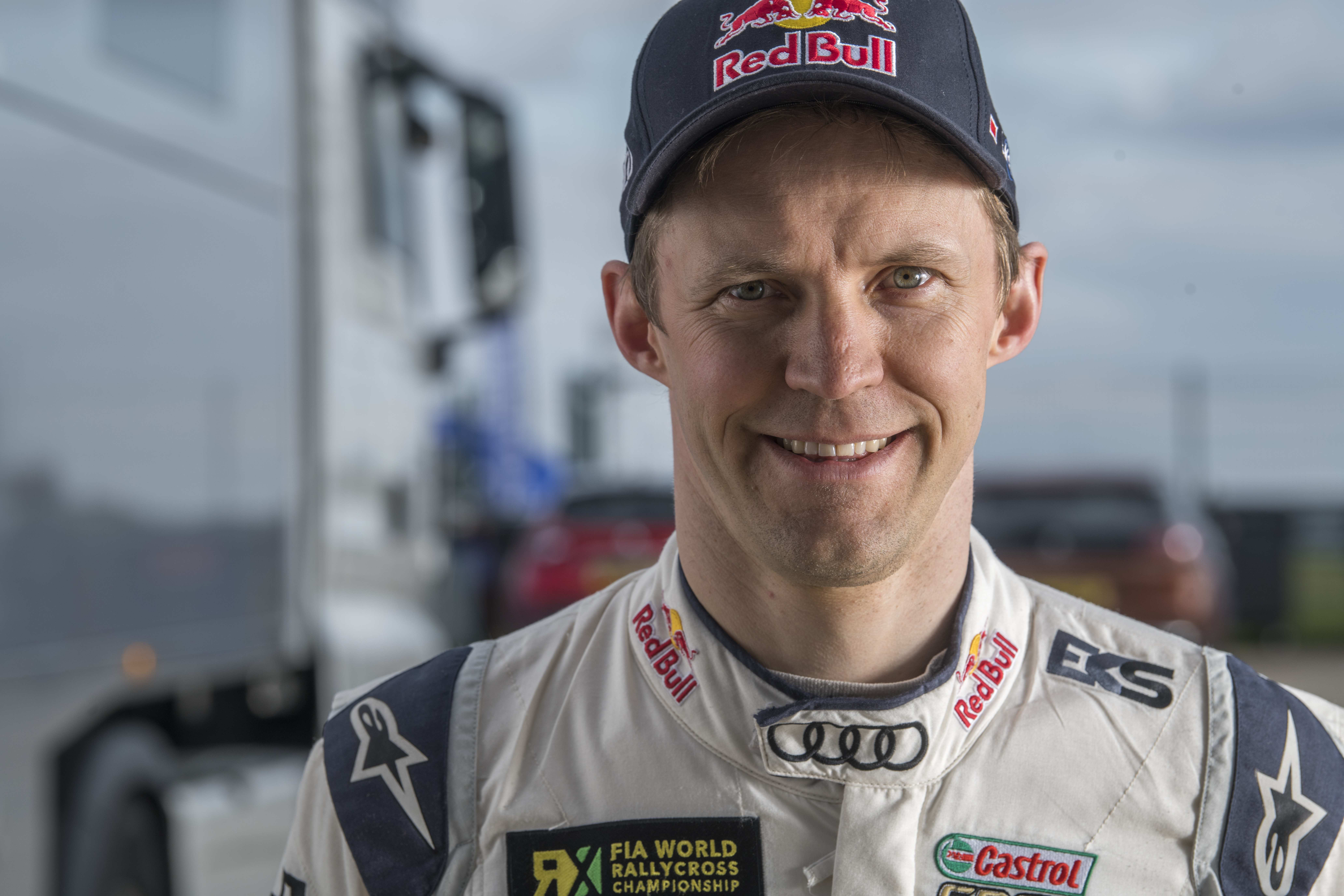 2018 FIA World Rallycross Championship, Credit: Jaanus Ree/EKS Audi Sport